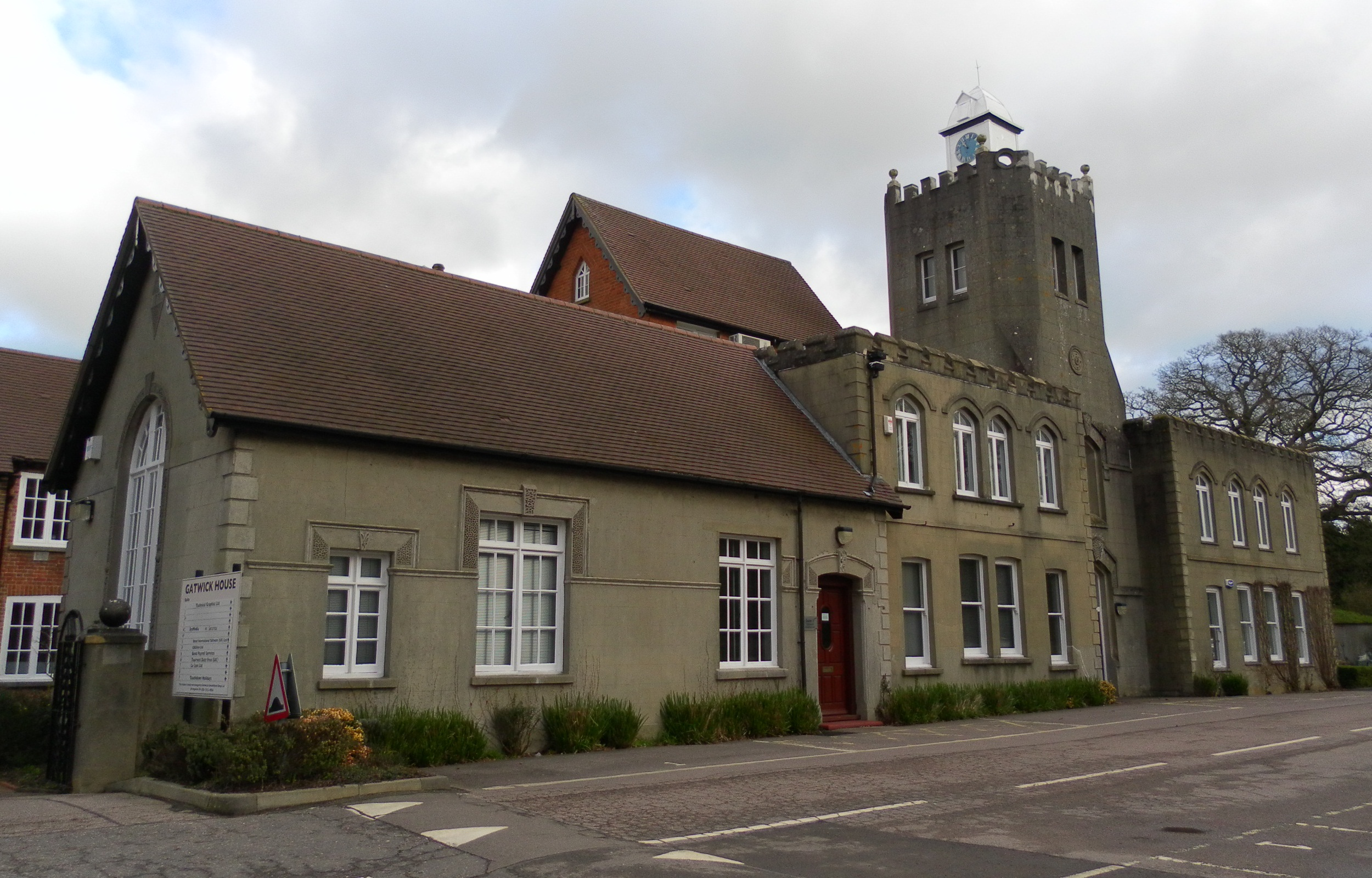 Gatwick House, Peeks Brook Lane, Fernhill, Borough of Crawley, West Sussex, England. One of the borough's locally listed buildings.